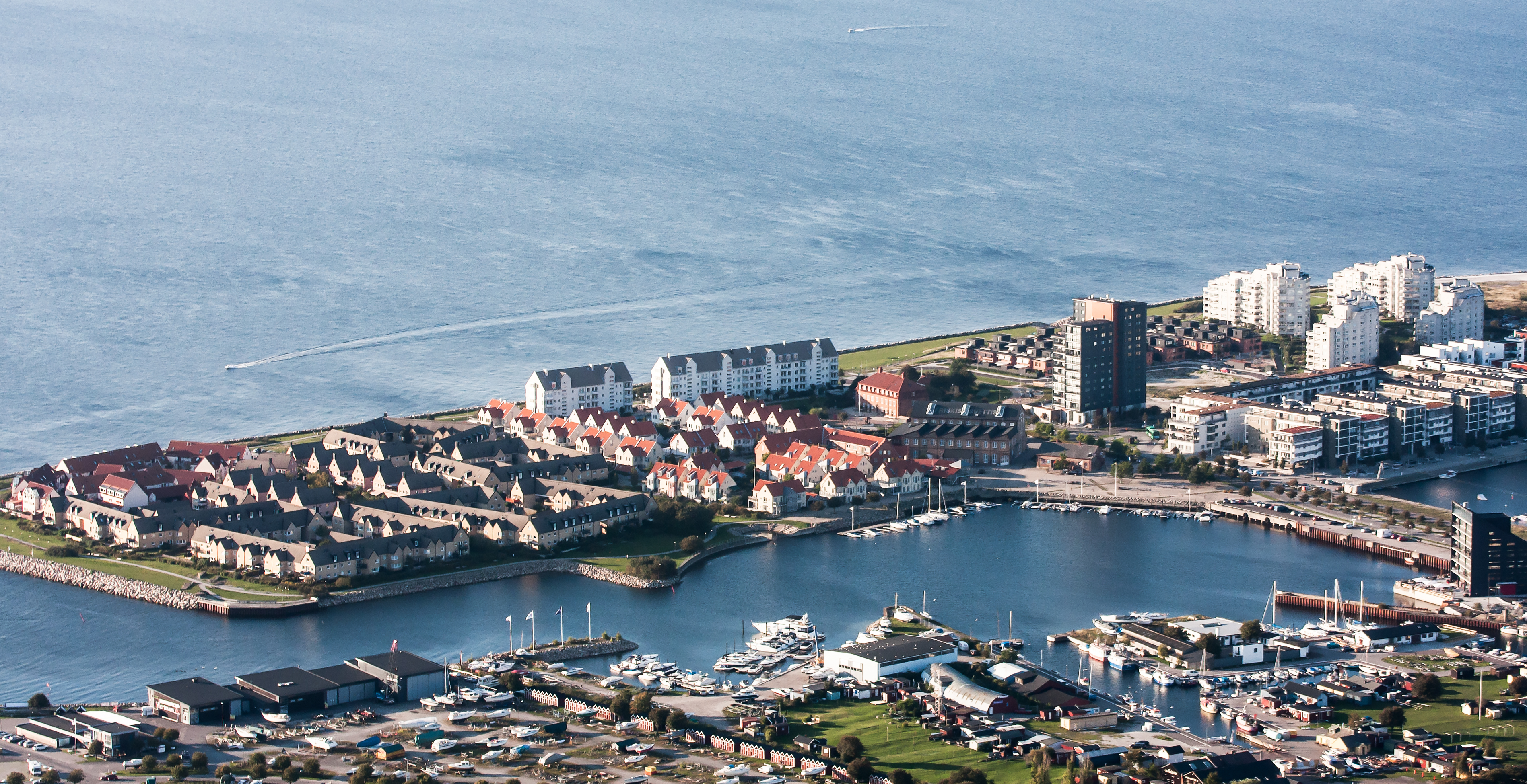 Ön (The Island) in Limhamn, Malmö, Sweden.